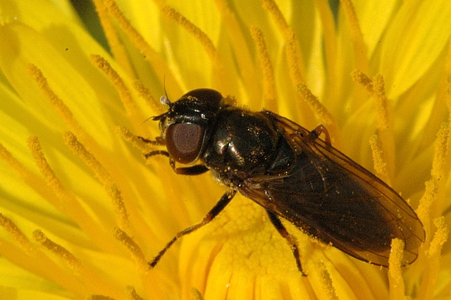 Picture taken in Commanster, Belgian High Ardennes . Species: female Cheilosia carbonaria